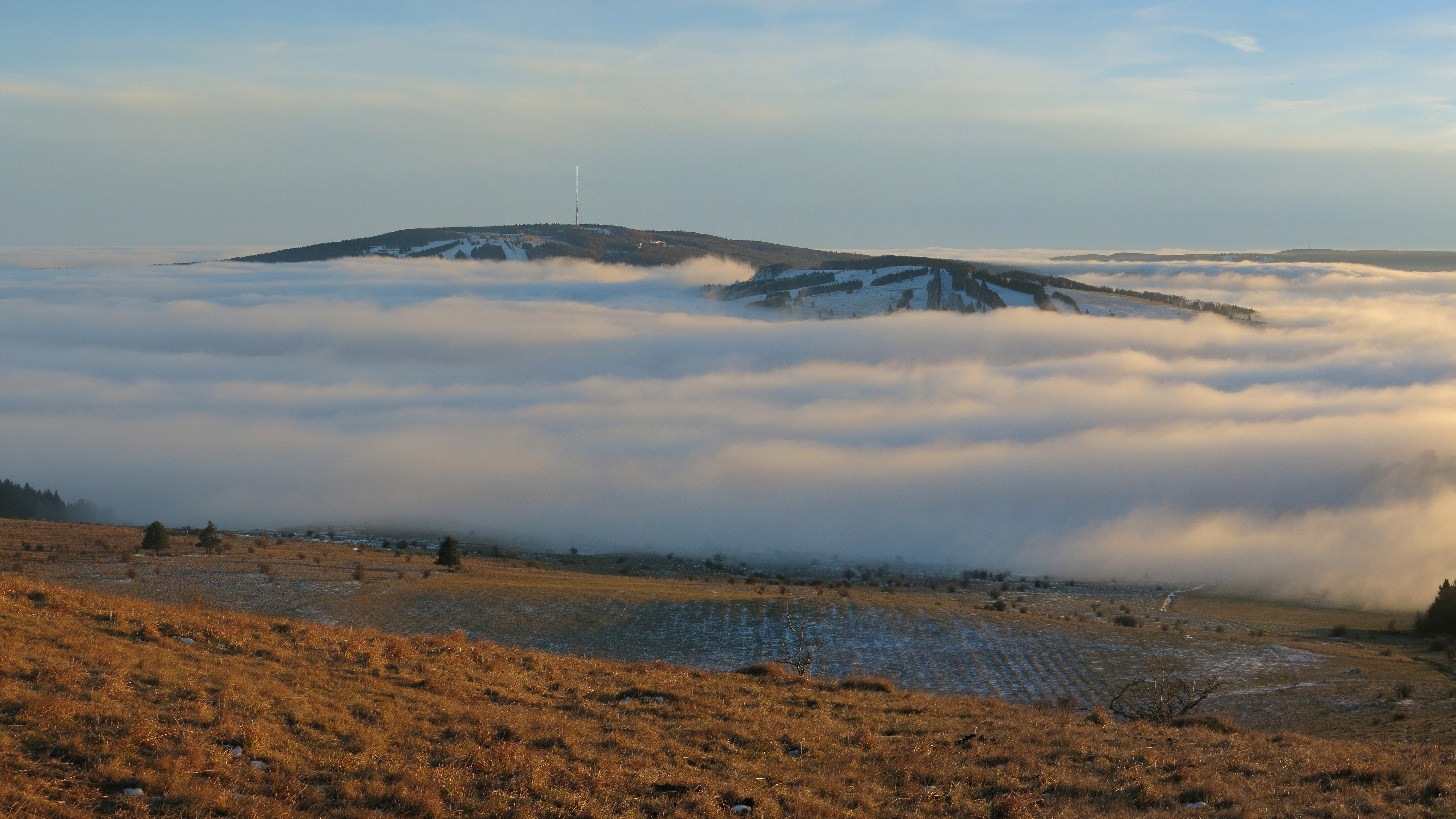 View from Himmeldunkberg southward to Kreuzberg and Arnsberg during meteorological inversion